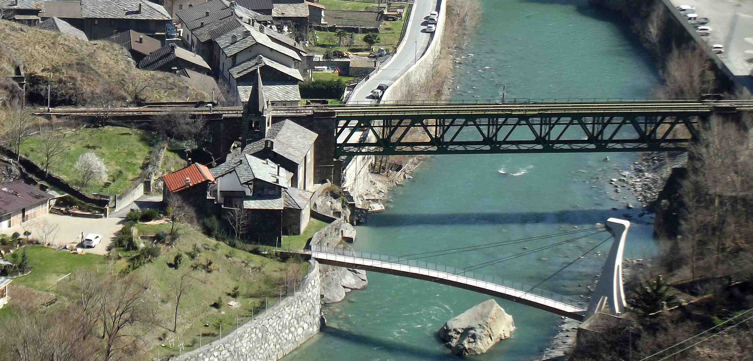 Chivasso-Aosta railway (Italy): the bridge on the Dora Baltea at Borgo (Montjovet, AO)